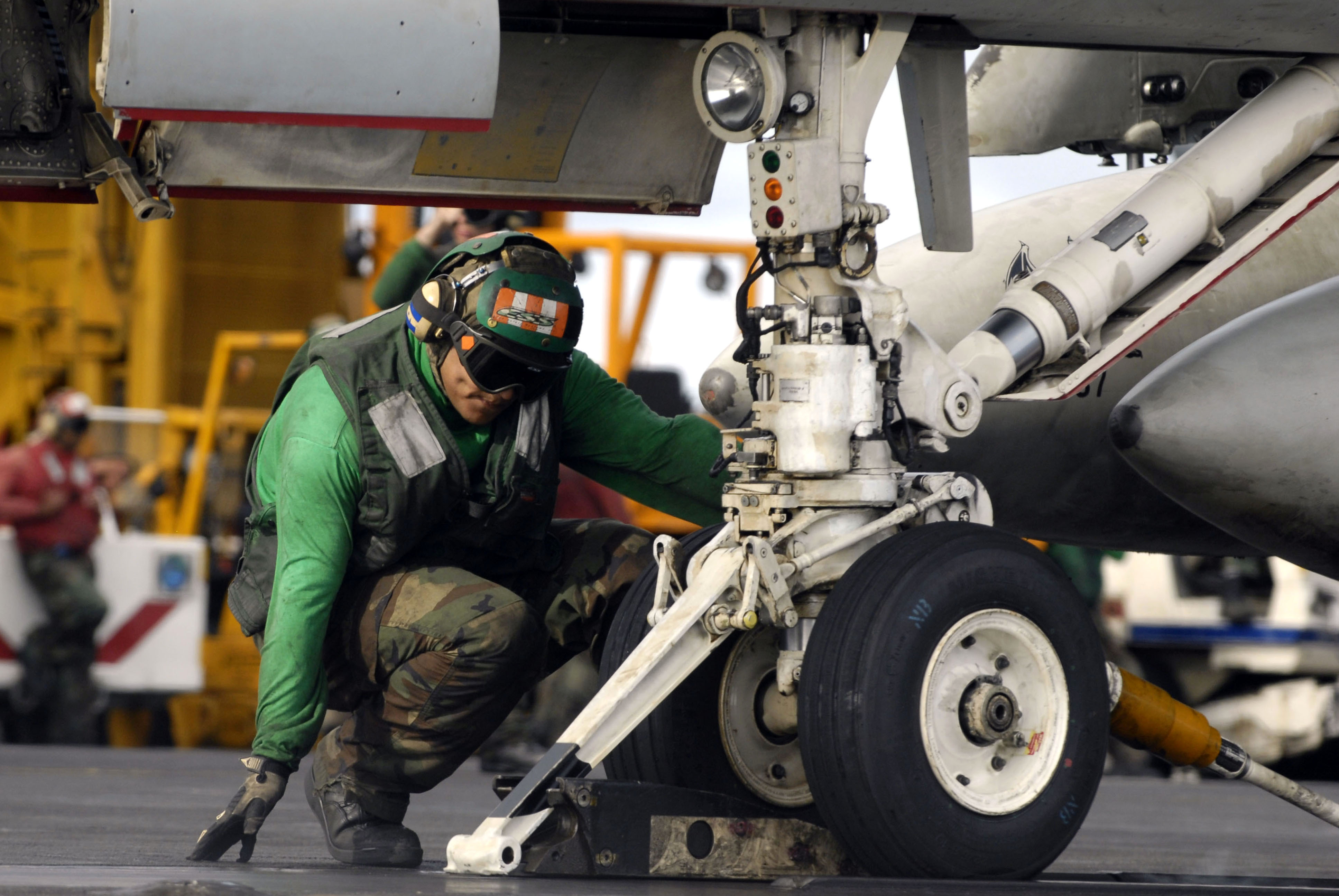 SOUTH CHINA SEA (Sept. 10, 2007) - Airman Luis Estrada, topside petty officer for the waist catapult aboard USS Kitty Hawk (CV 63), verifies that the holdback bar is in place prior to launch. Kitty Hawk is more than three months into her summer deployment from Fleet Activities Yokosuka, Japan. U.S. Navy photo by Mass Communication Specialist Seaman Kyle D. Gahlau (RELEASED)